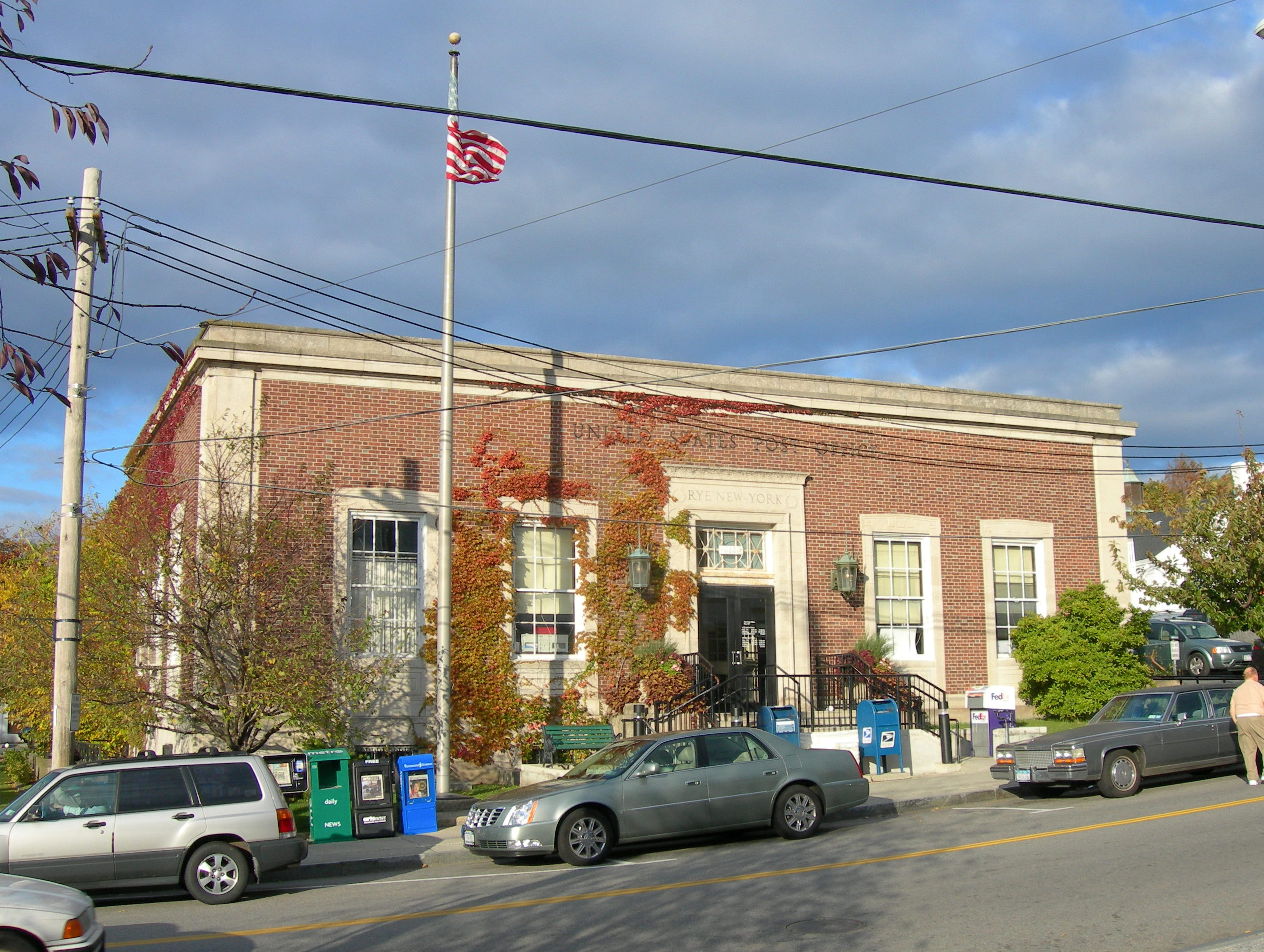 Post office built in 1935 and holds a New Deal mural in the lobby.